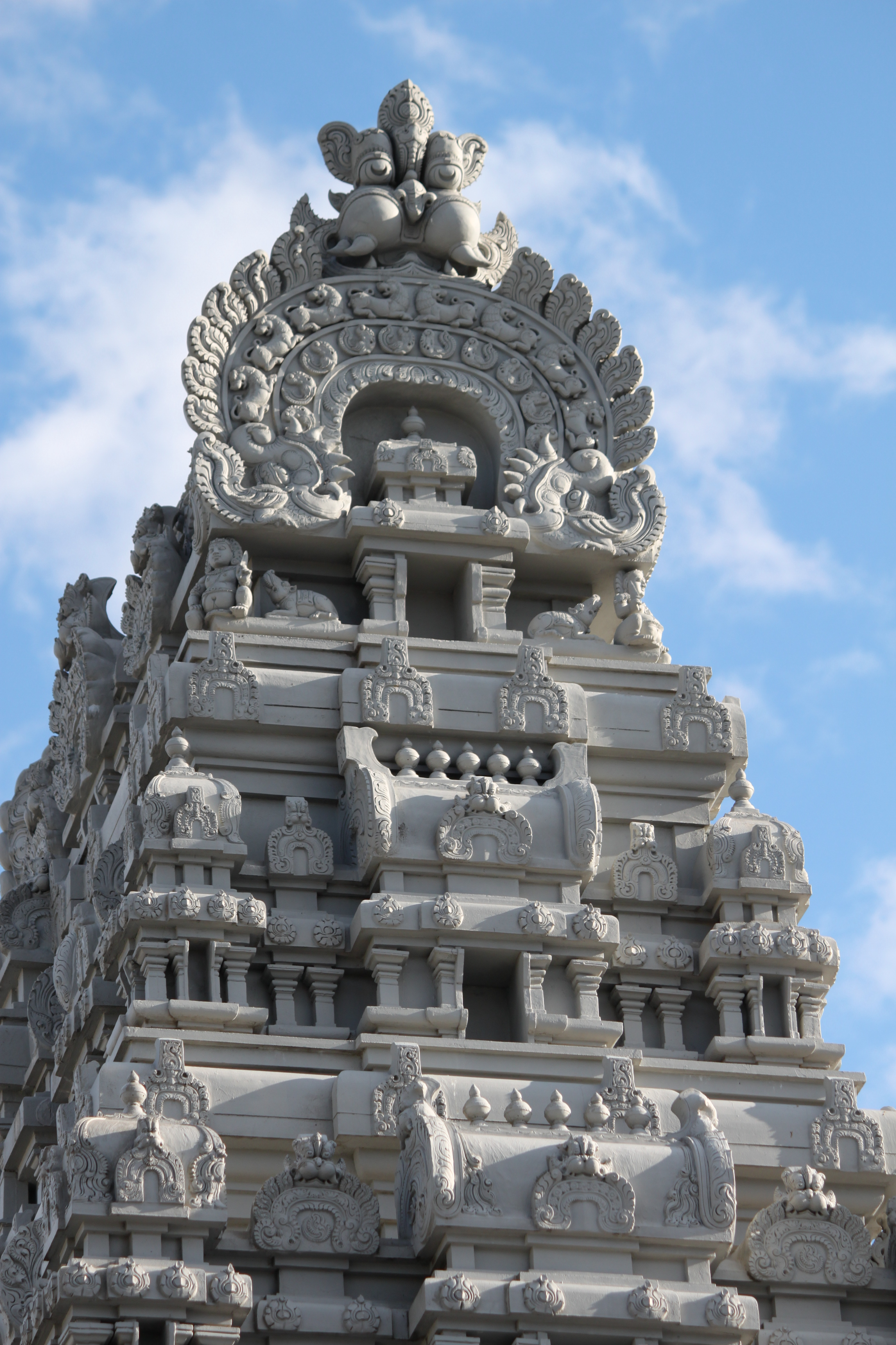 Hindu Temple Society Of North America, 45-57 Bowne St - Exterior Site: Hindu Temple Society Of North American - Flushing, Queens